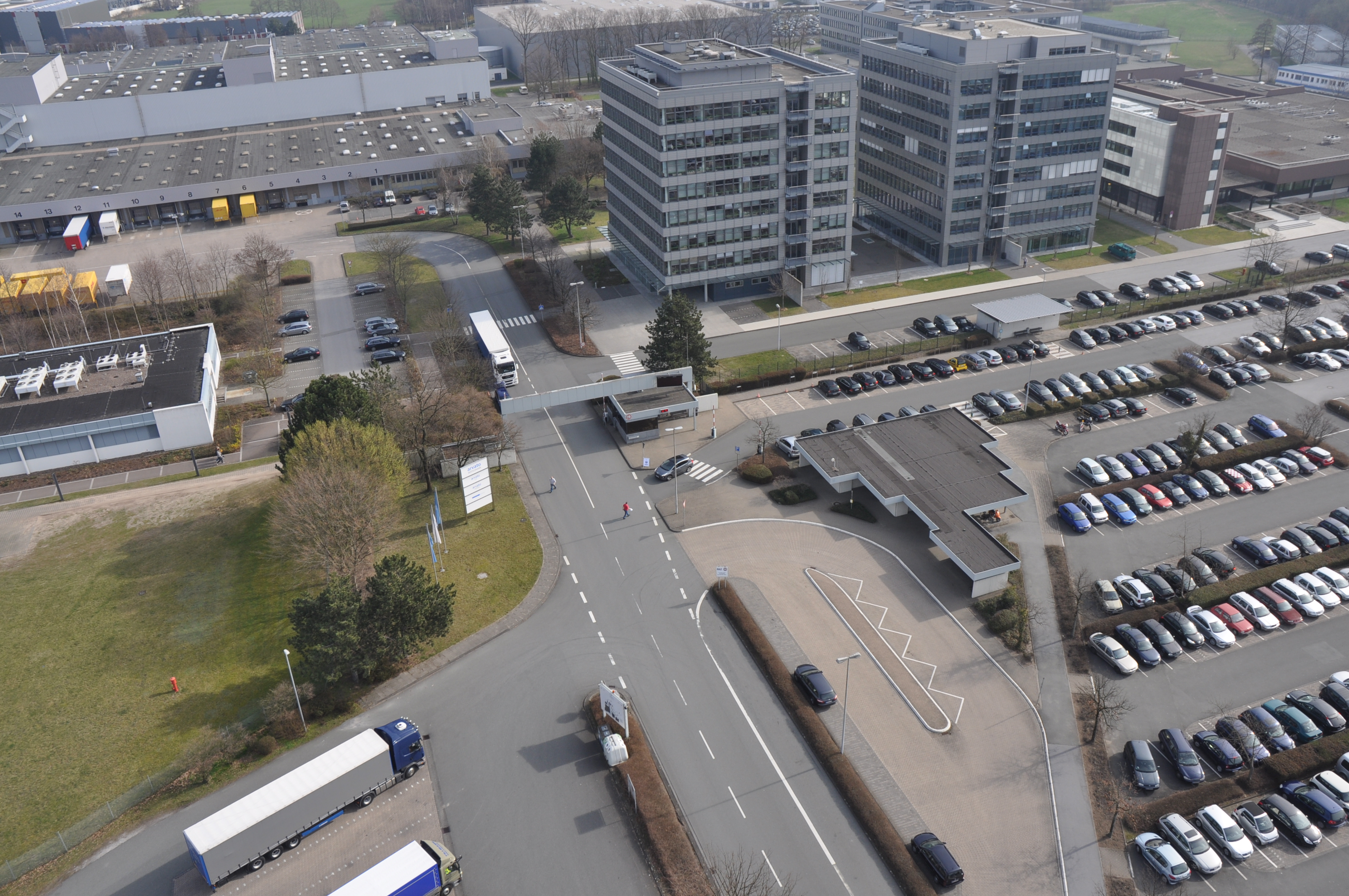 Headquarters of Arvato in Gütersloh